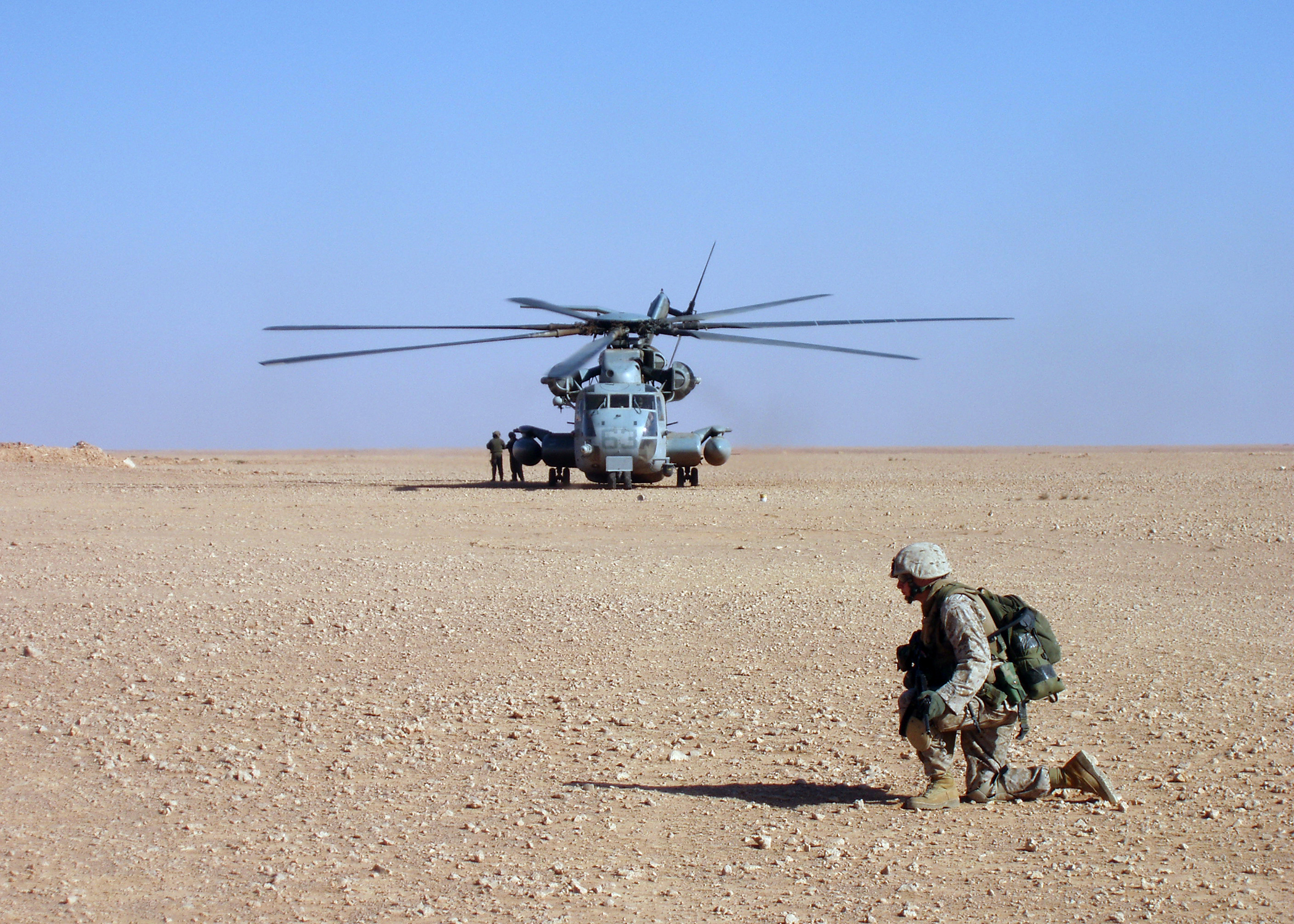 Ar Rutbah, Iraq (Dec. 22, 2004) – A U.S. Marine, assigned to 3rd Light Armored Reconnaissance Battalion (LAR), provides security near a CH-53E Super Stallion helicopter near Ar Rutbah, Iraq. U.S. Navy photo by Builder 2nd Class Michael W. Hollman (RELEASED)